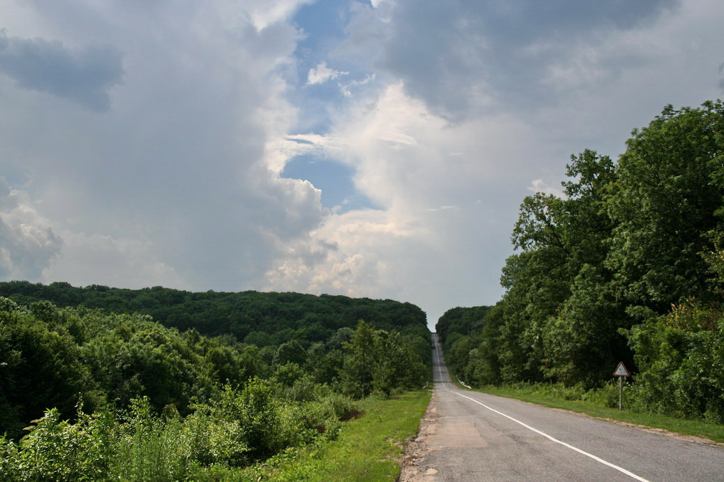 Black forest near Znamyanka